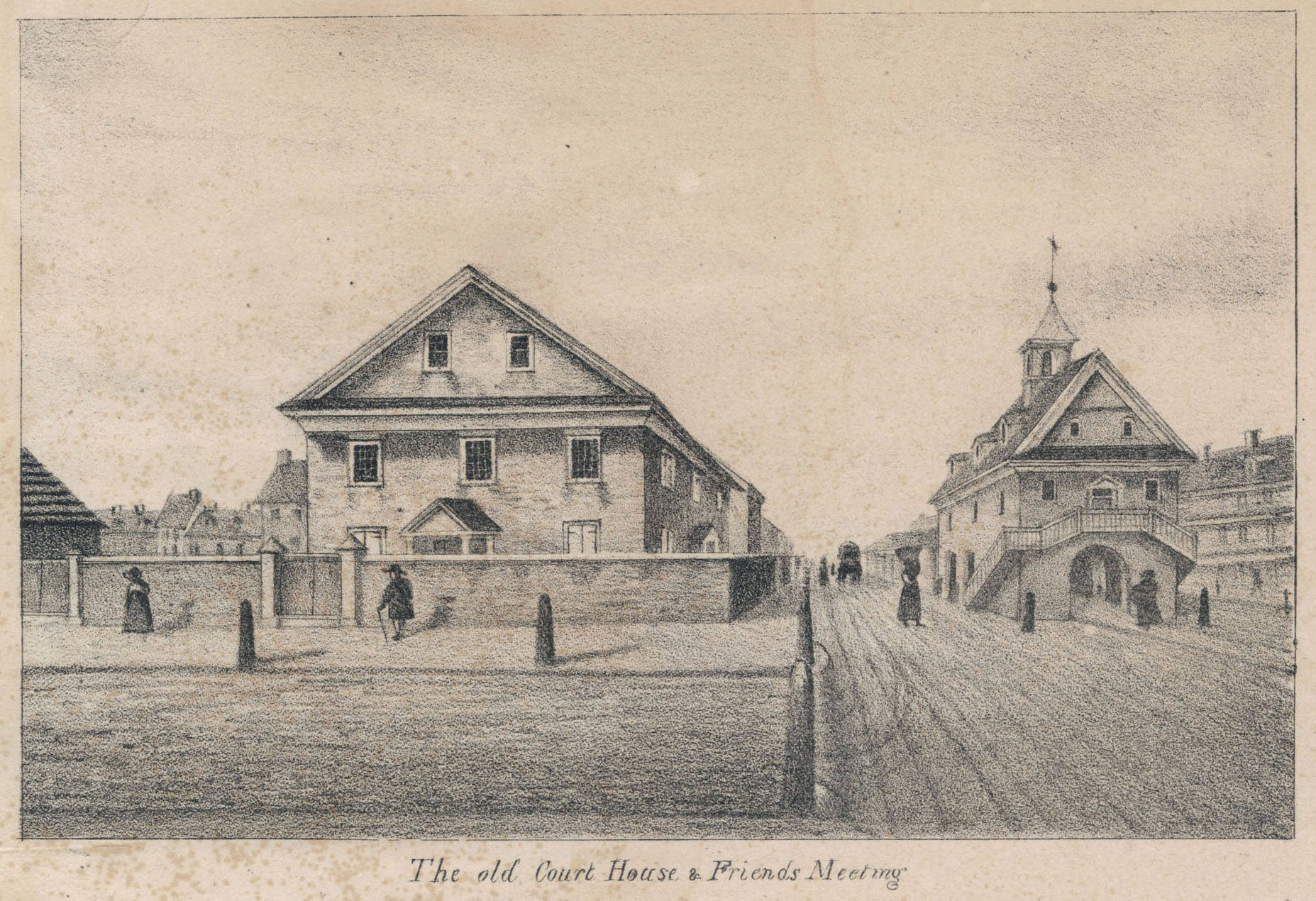 "The old Court House & Friends Meeting," lithograph by William L. Breton, illustration from John Fanning Watson, Annals of Philadelphia (1830).